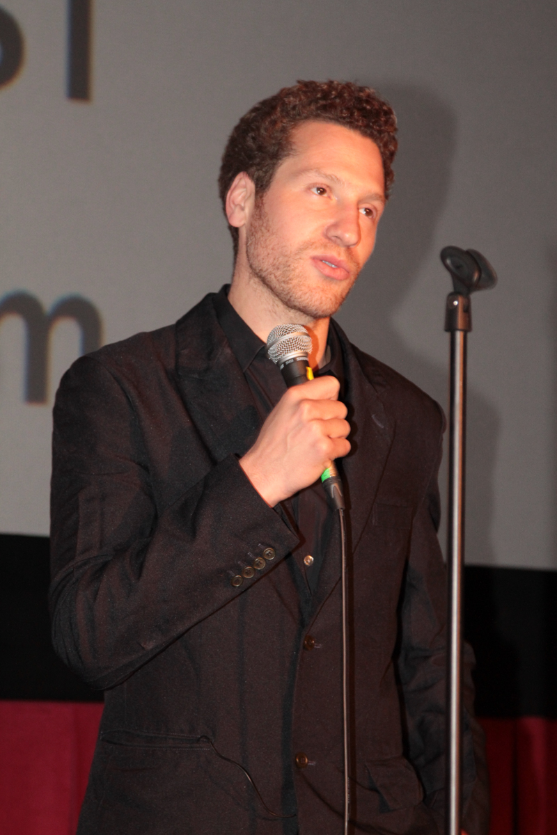 photo of Gabe Polsky